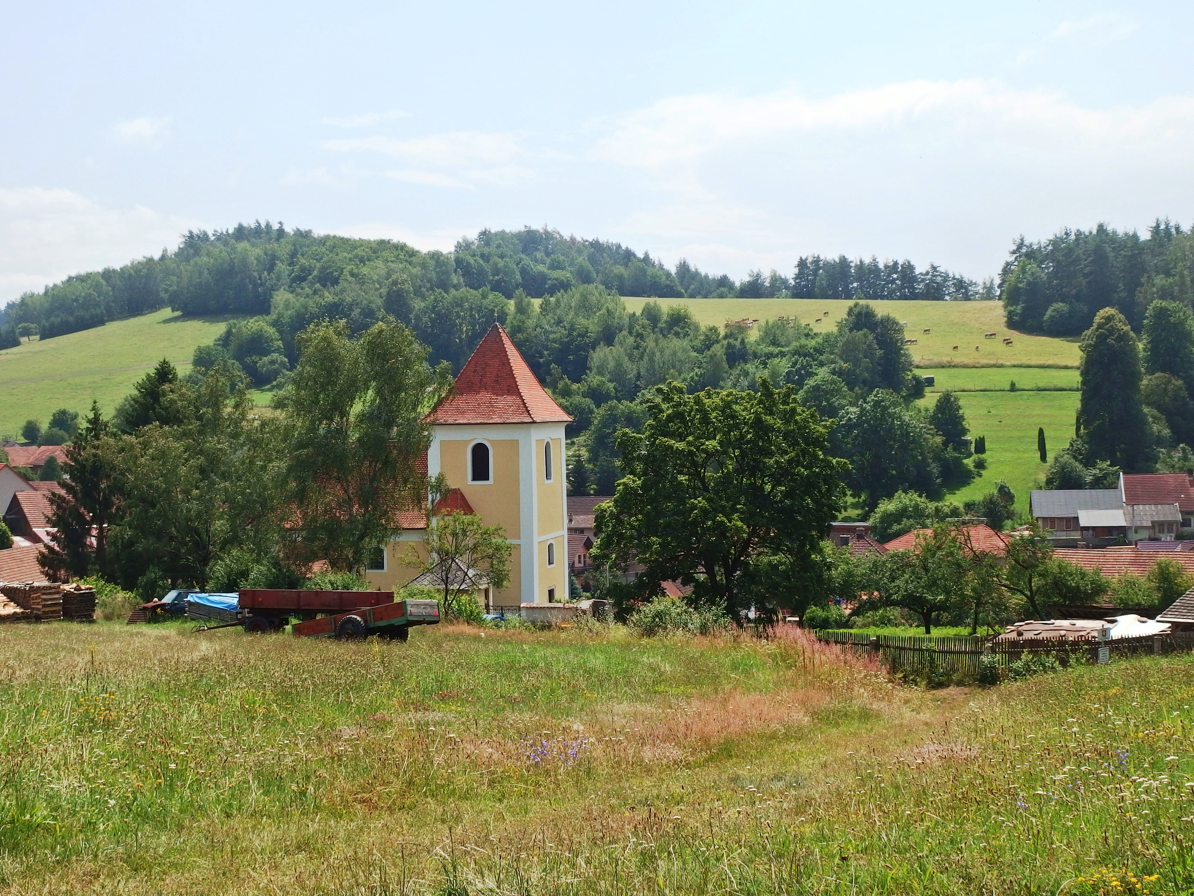 Věžná, Žďár nad Sázavou District, Czechia.